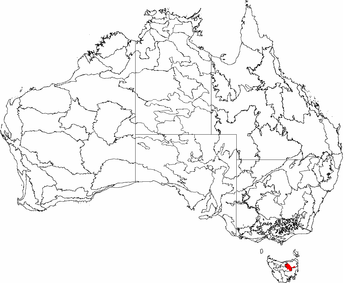 This is a map of the Interim Biogeographic Regionalisation of Australia (IBRA), with state boundaries overlaid. The Tasmanian Northern Midlands region is shown in red.